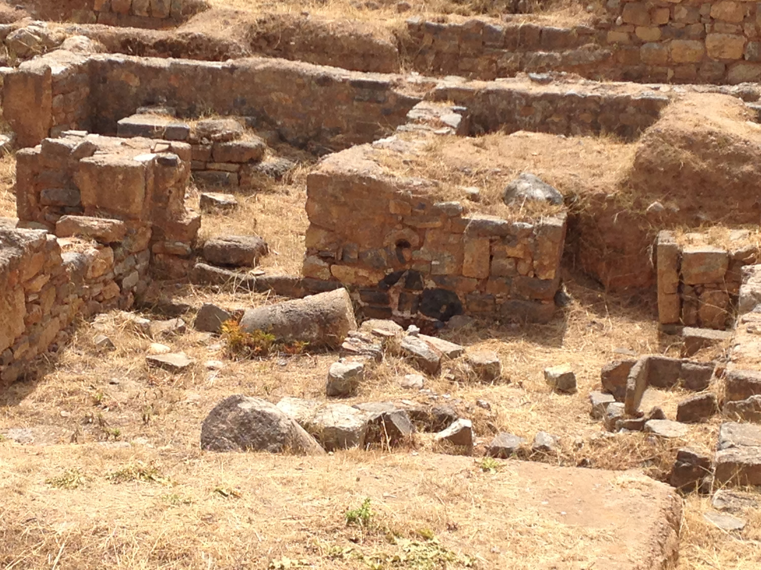 The ruins of the ancient town Kamara, on Crete; today Agios Nikolaos